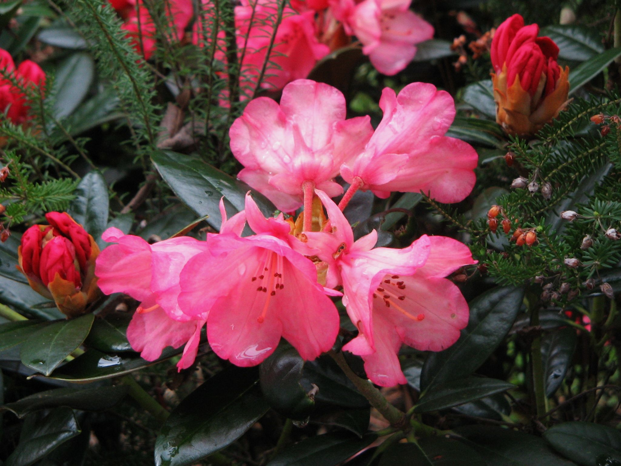 Rhododendron 'Bambi'